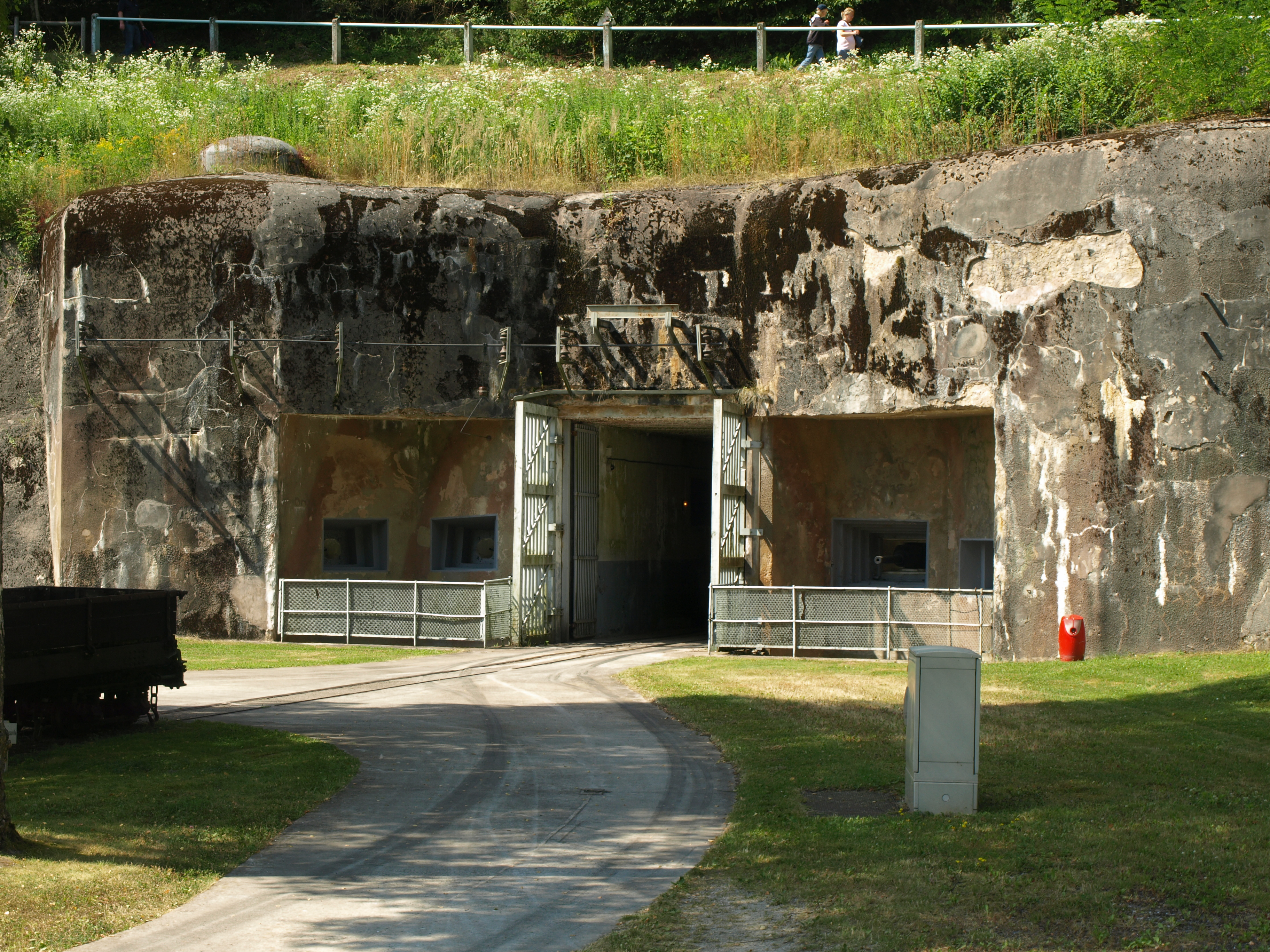 Fortress Simserhof in the Maginot-Line.